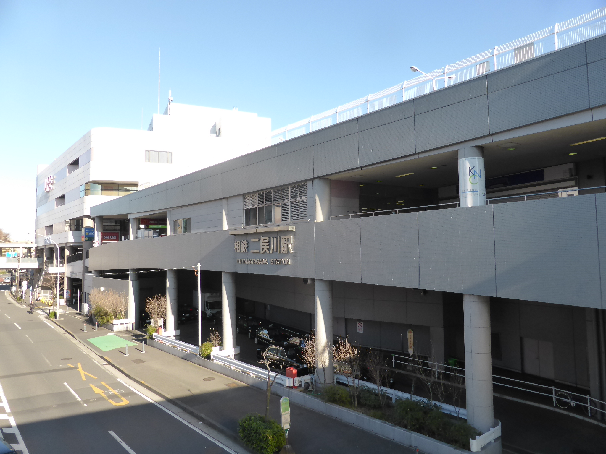 The north side of Futamatagawa Station on the Sotetsu Main Line in Asahi-ku, Yokohama, Kanagawa, Japan